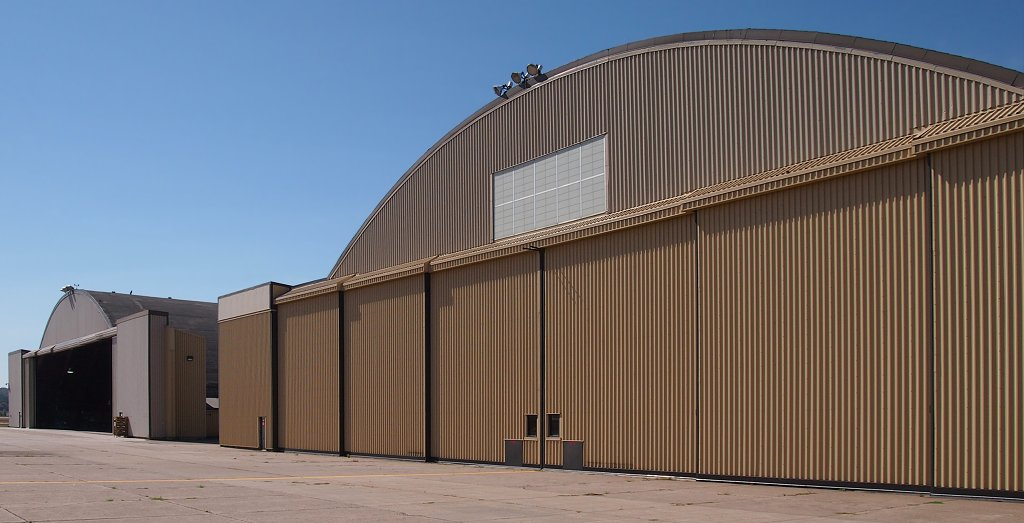 Riverside Hangar, Holman Field, St Paul, Minnesota, USA